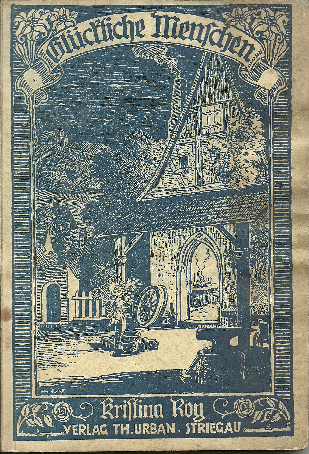 Title page of the German translation of novel "Šťastní ľudia" by Kristína Royová (8th ed., 1933)